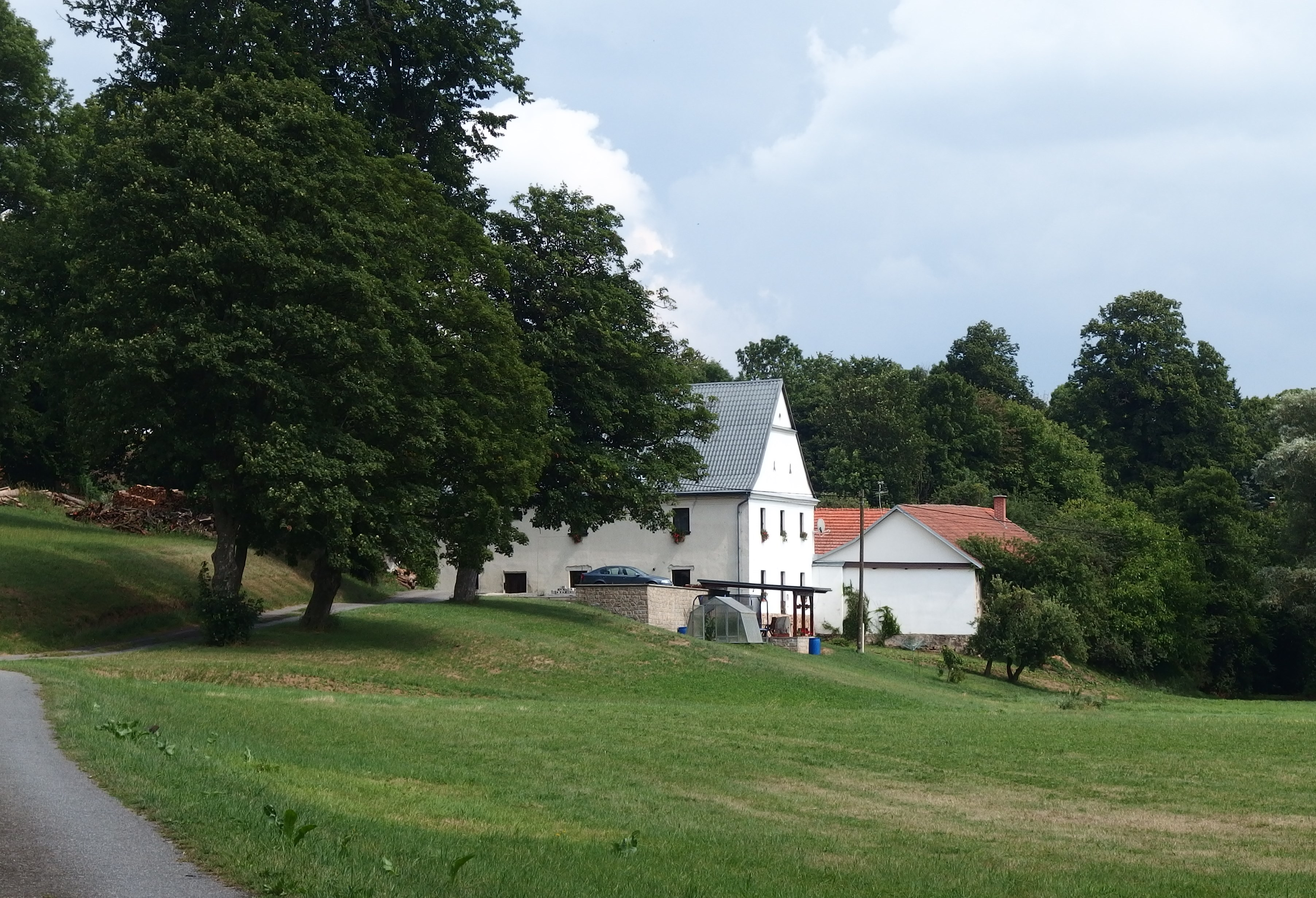 Rozsochy, Žďár nad Sázavou District, Czechia, part Vojetín.